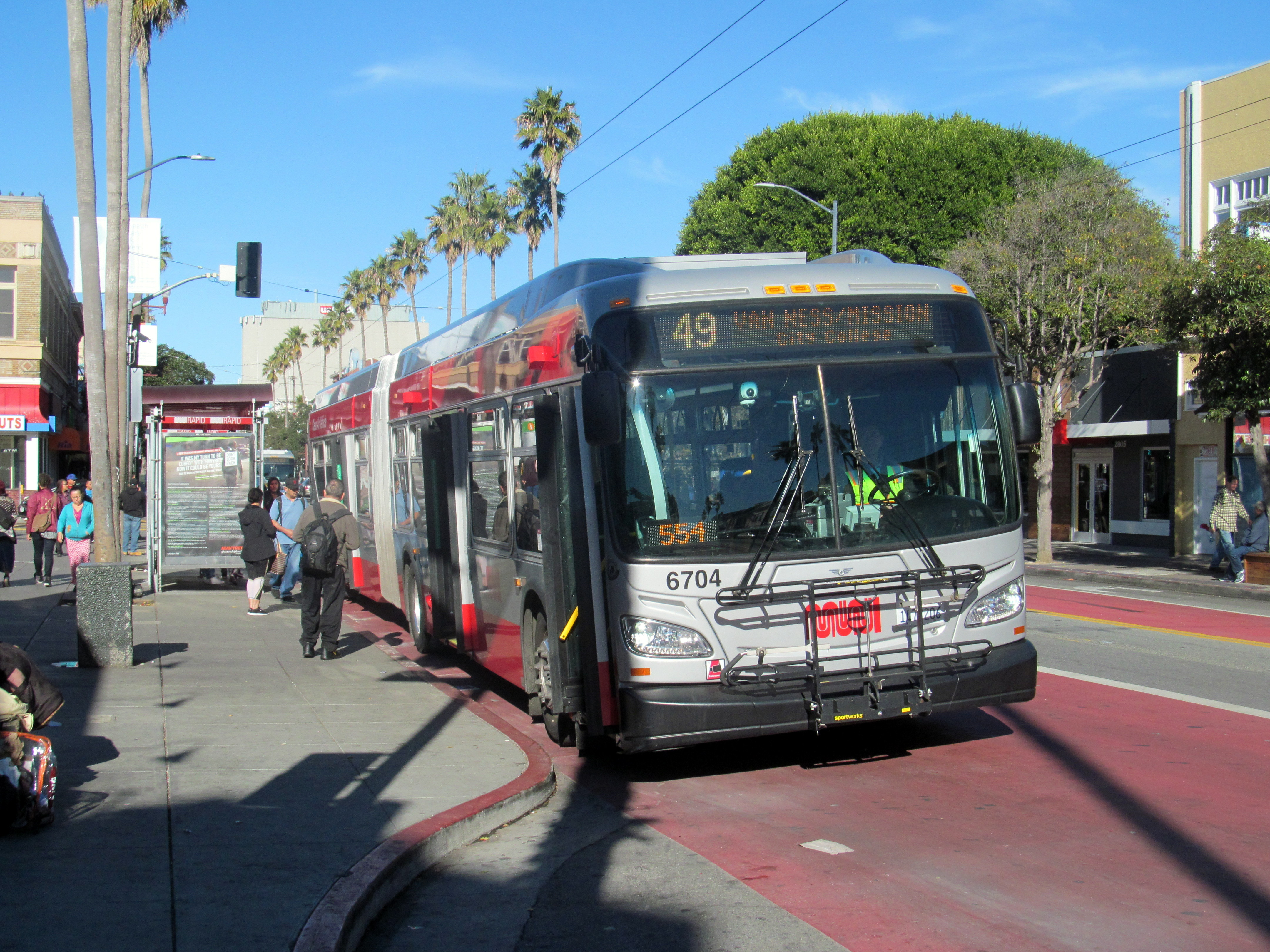 Muni route 49 bus at 24th Street Mission station in December 2017